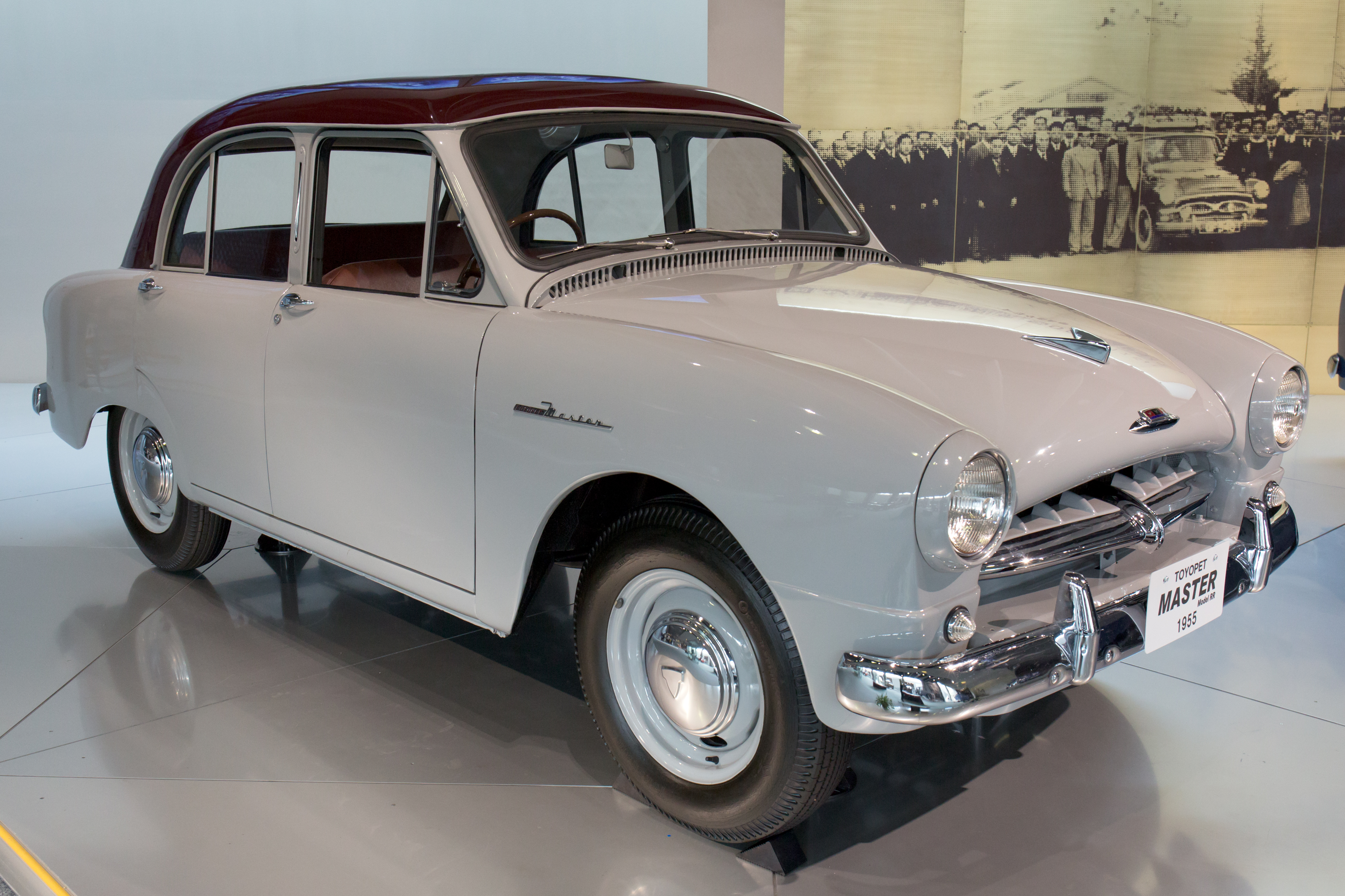 1955 Toyopet Master RR